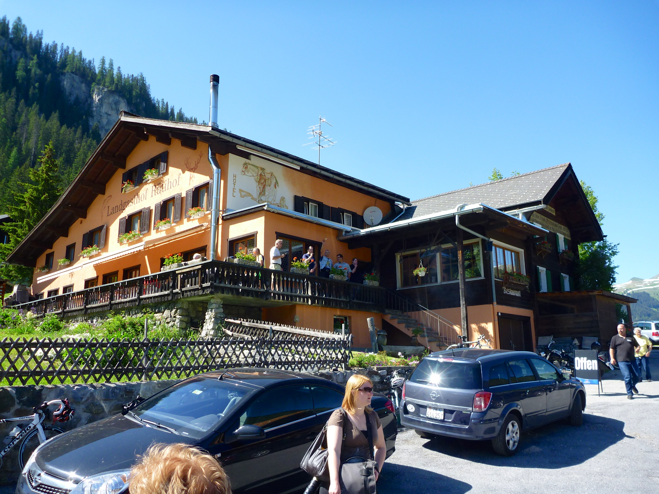 Restaurant Rütihof at Litzirüti near Arosa